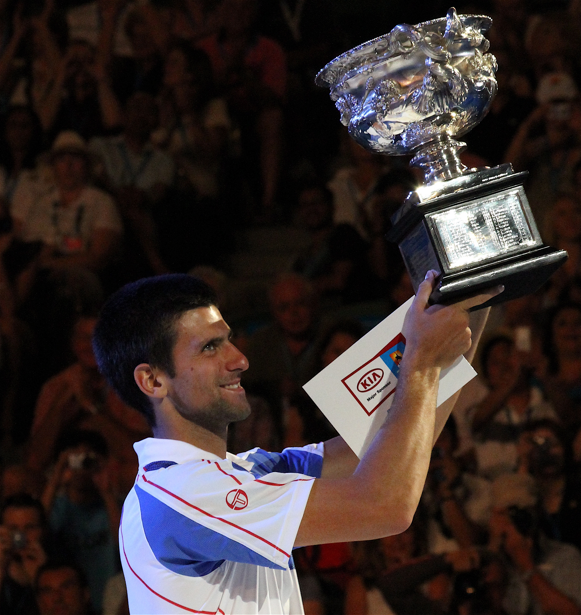 Novak Djokovic at the 2011 Au stralian Open